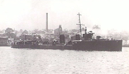 Australian War Memorial image EN0425 HMAS Huon in December 1915 during her trials in Iron Cove, Sydney